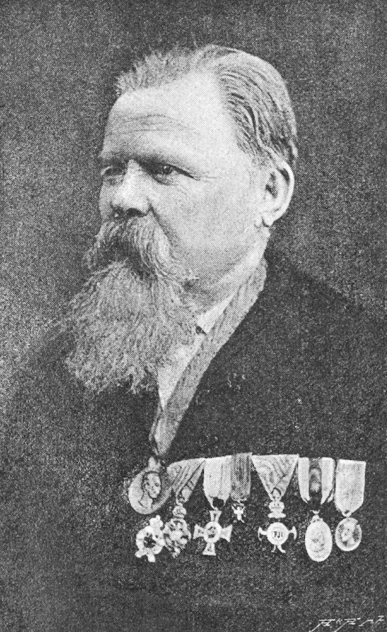 Portrait of Václav František Červený (1819–1896), producer of musical instruments.